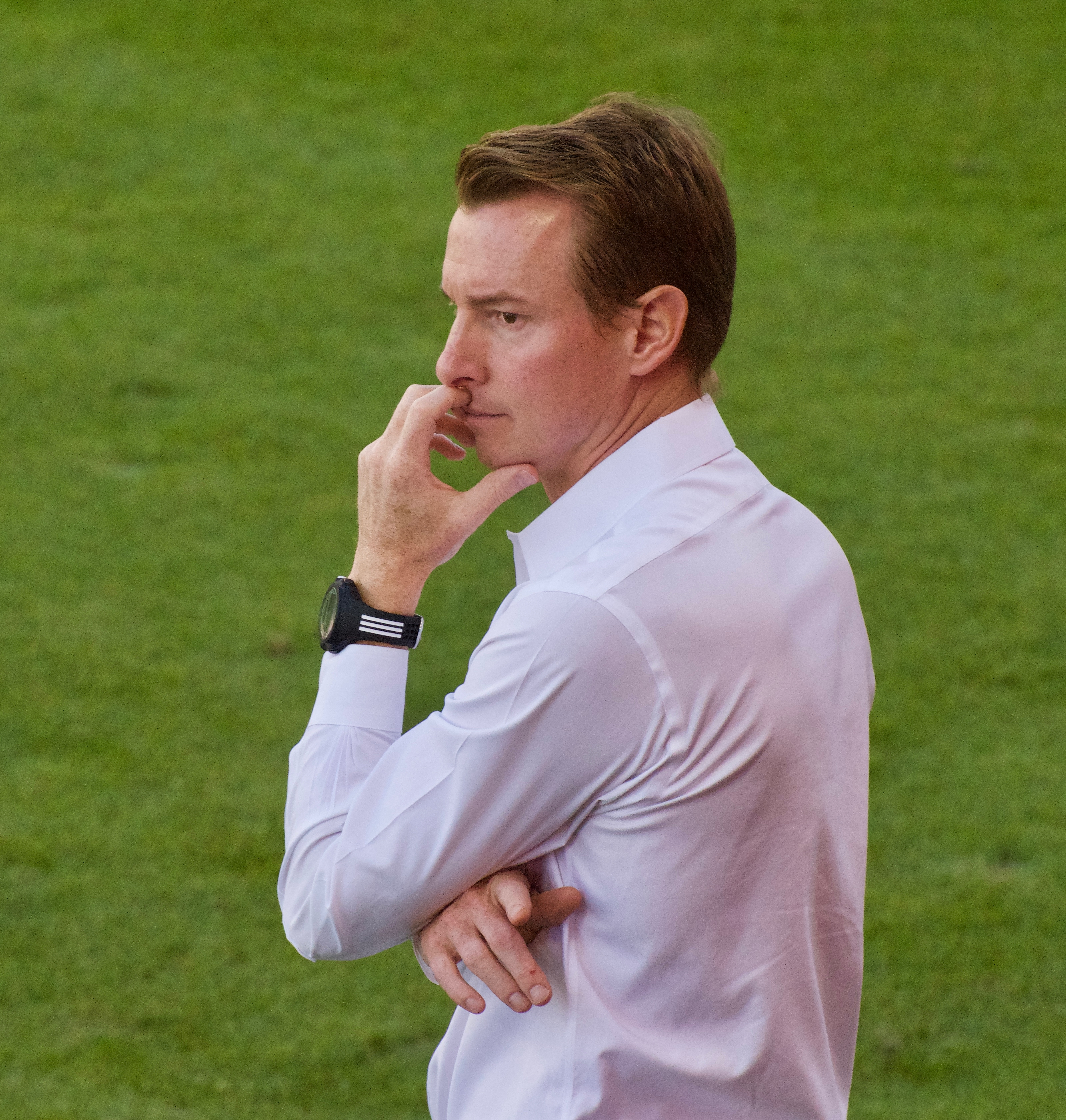 Chris Leitch coaching the San Jose Earthquakes vs Colorado Rapids on 2017.07.30 at Avaya Stadium